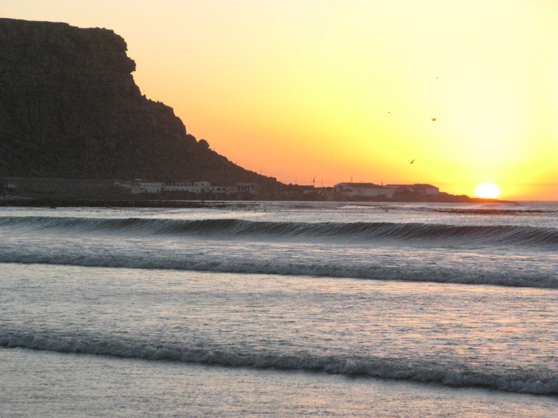 Elandsbaai - Baboon Point (South Africa)